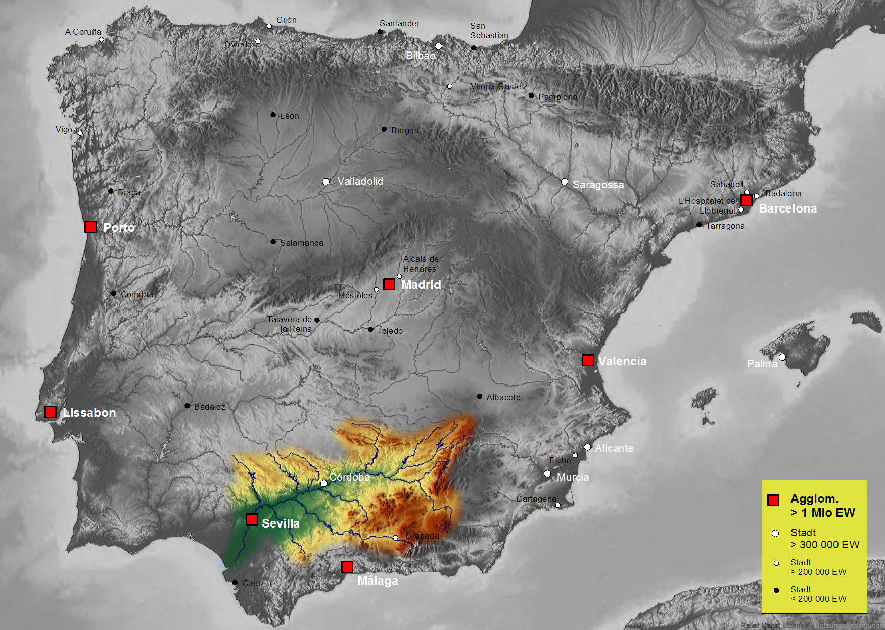 Map of Guadalquivir river basin in Spain, Karte des hydrogeografischen Beckens des Guadalquivir